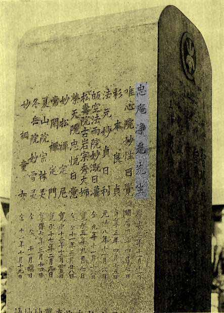 The monument of the Sugimoto family in the graveyard of the Zuirinji Temple in Tokyo. The name on the right,Chūan Joko Sensui, was the Japanese posthumous Buddhist name for Cristóvão Ferreira